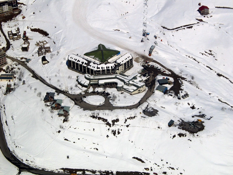 Gudauri in Georgia